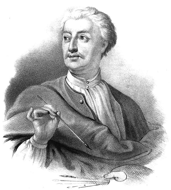 Johan Filip Lemke (1631 - 1711 or 1713)